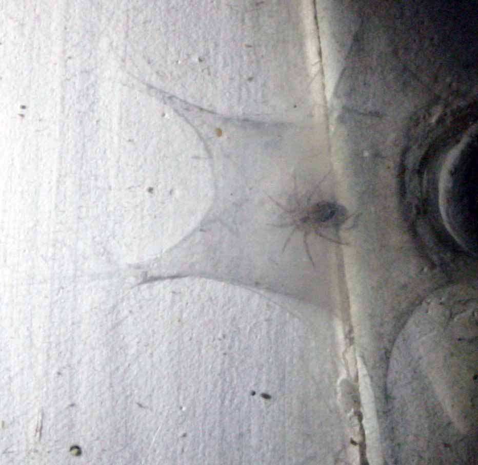 Star-shaped web of Oecobius navus against hot-water geyser (spider sheltering below web) - Chucklenook, Honeydew, Gauteng